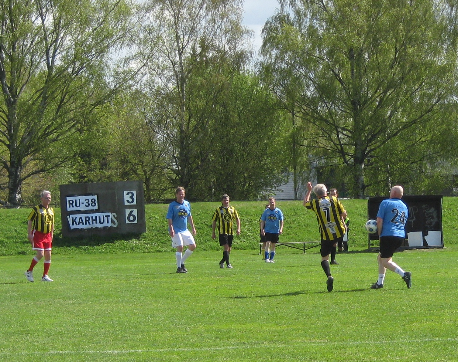 1960's squads of RU-38 and Karhut in May 2012 at Herralahti field, Pori Finland.